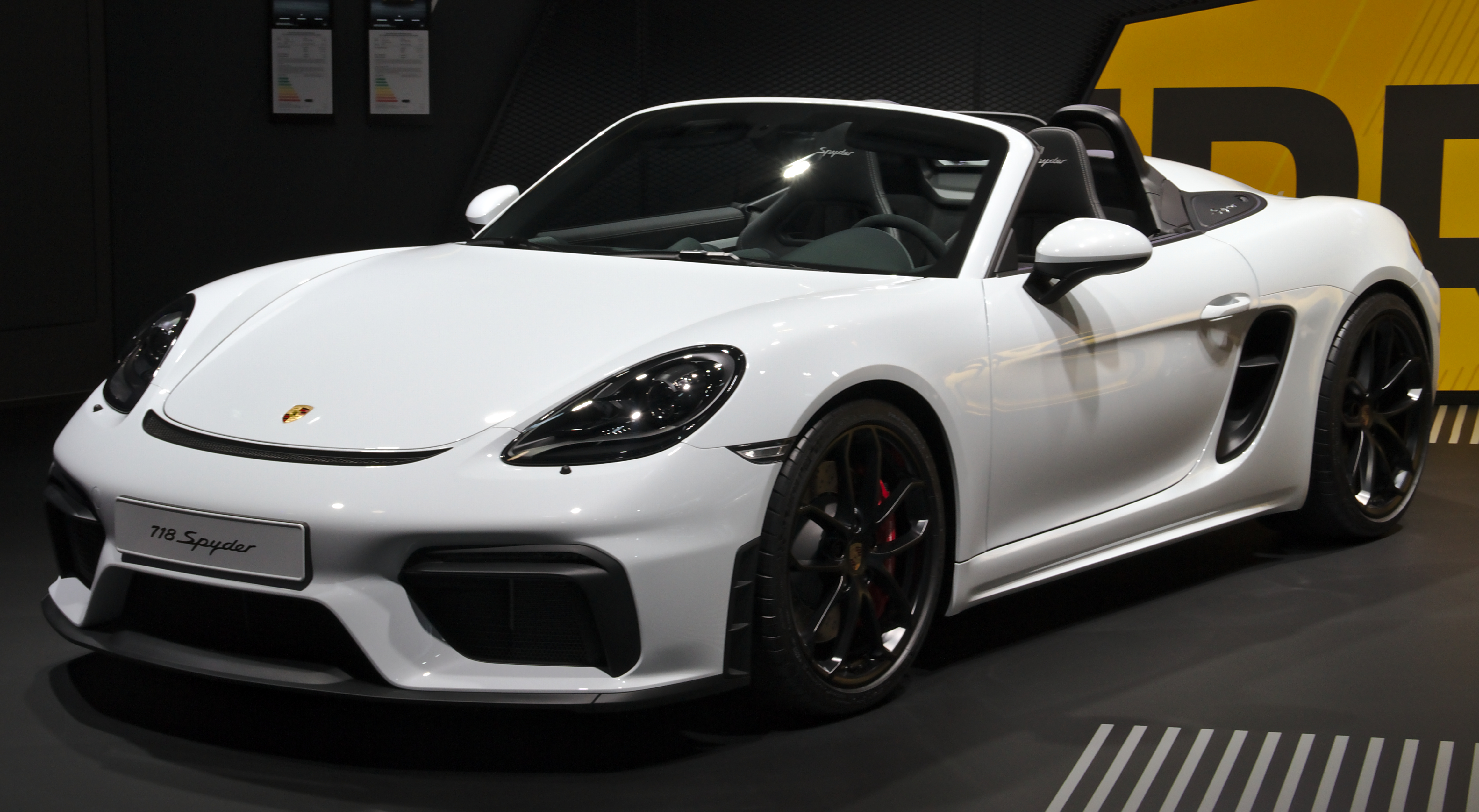 Porsche_718_Boxster_Spyder at IAA 2019